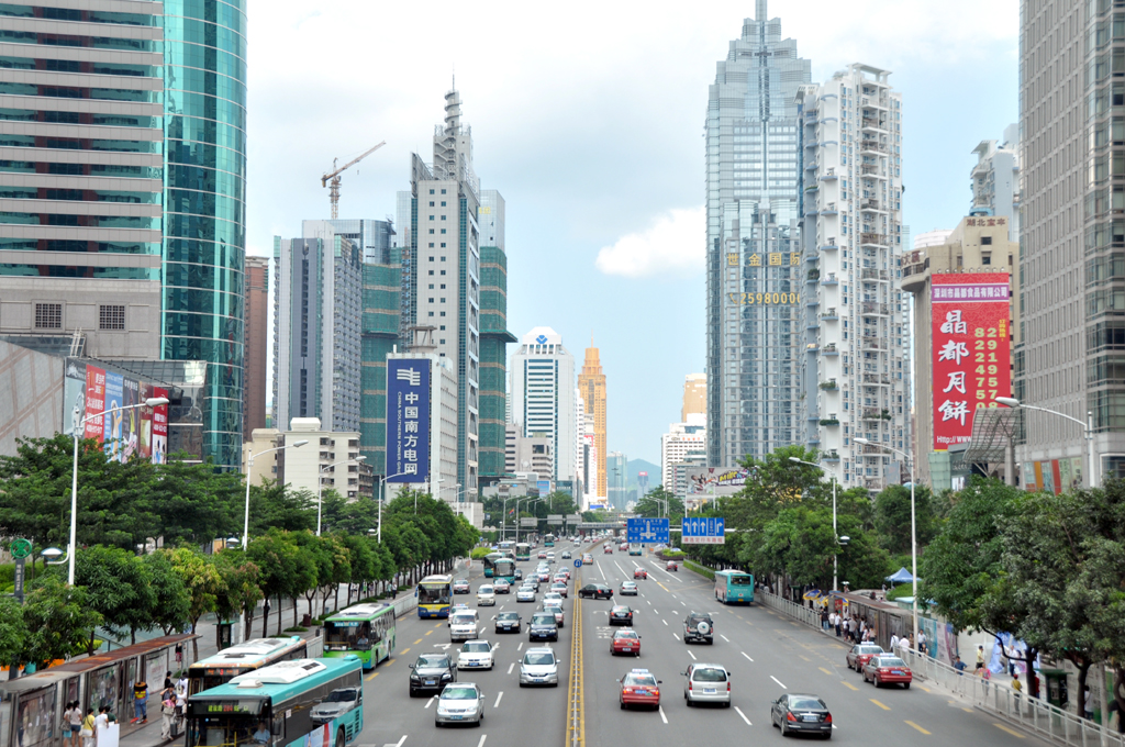 Photo taken in Shenzhen near the landmark commercial building.